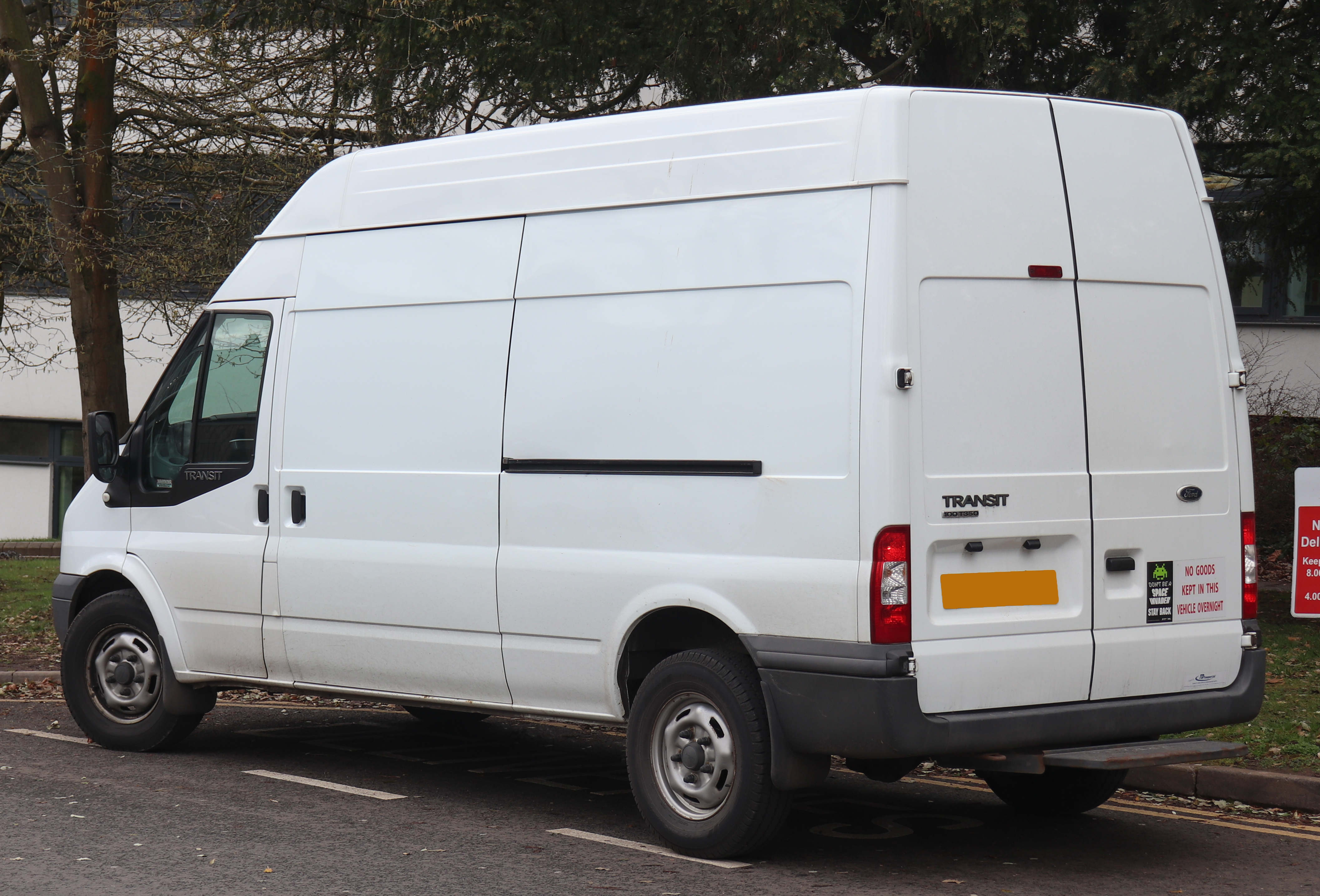 2013 Ford Transit 100 T350 RWD 2.2 Rear Taken in Leamington Spa